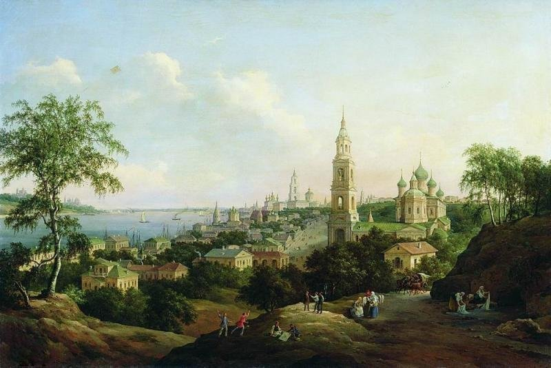 Painting of Nikanor Tchernetsov "Kostroma" (1862)